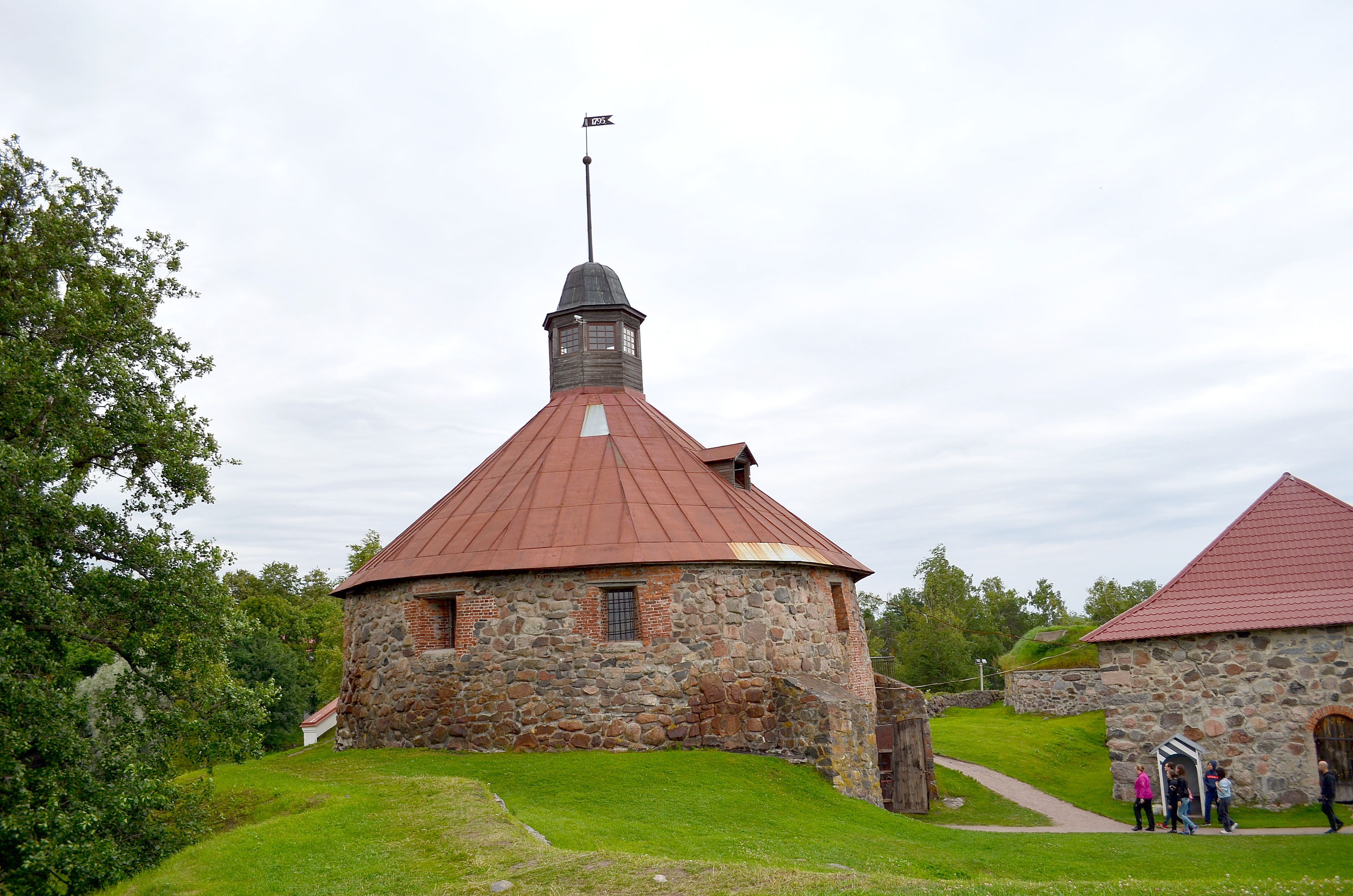 Korela Fortress. Round Tower (Pugachevskaya): Leningrad highway, 3, Priozersk, Priozerskiy districtLeningrad Oblast